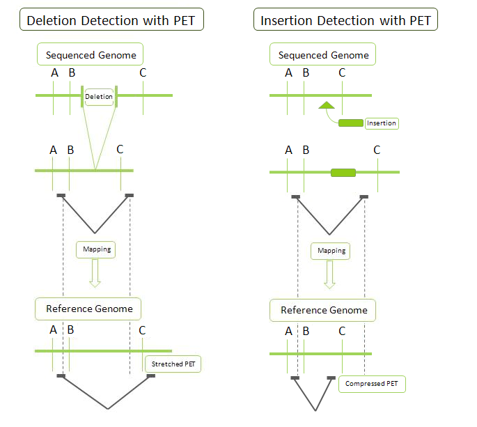 Detecting deletions and insertions with PET